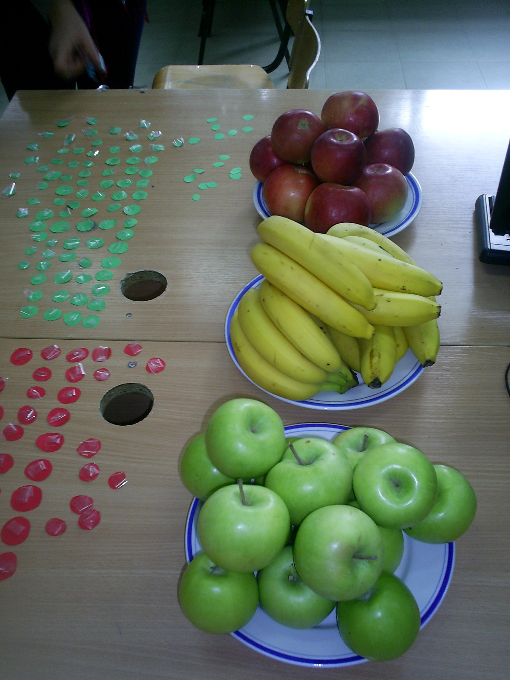 Семафор од здрава храна